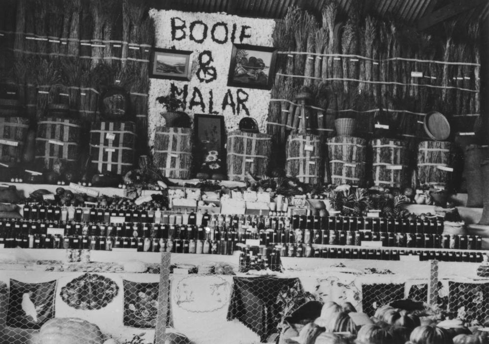 Booie and Malah districts exhibition at Kingaroy Show, 1936 Booie is believed to be the first district ihe Kingaroy Shire which was opened up for closer settlement, dating from around 1882. (Description supplied with photograph). The display at the show consists of preserves, handcrafts and produce from the district.